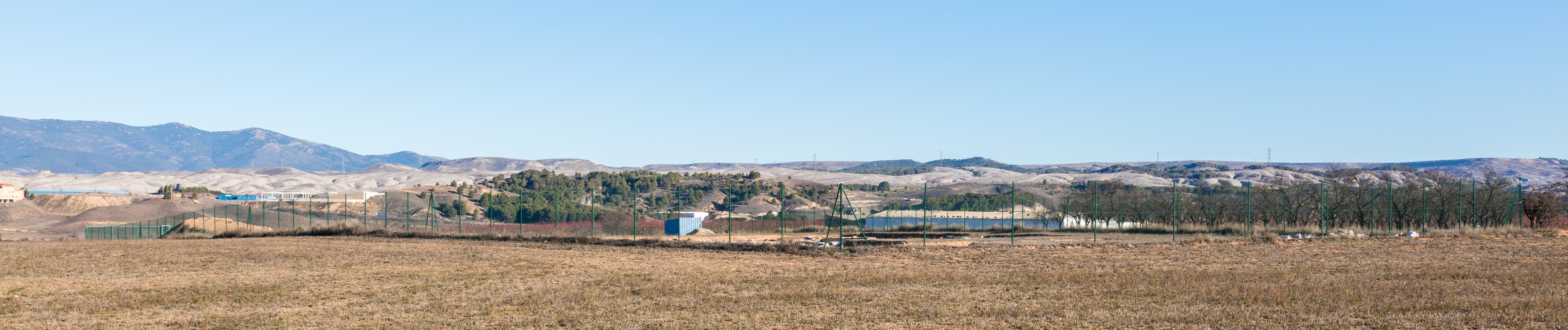 Archaeological site of Valdeherrera, Calatayud, Saragossa, Spain